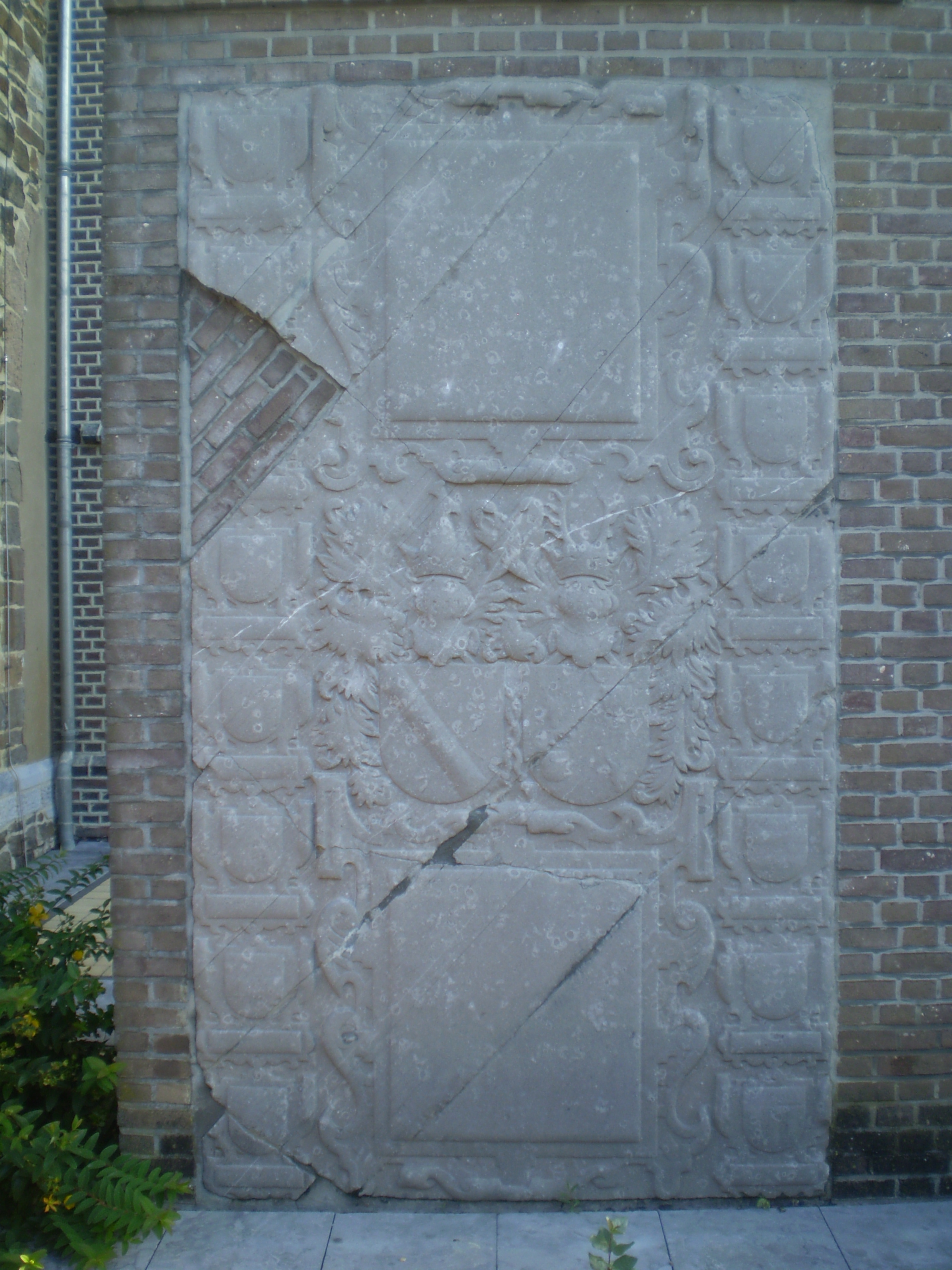 Tombstone of Joan of Kessenich and Guido of Malsen, lady and lord of the imperial seignory of Kessenich (Belgium)